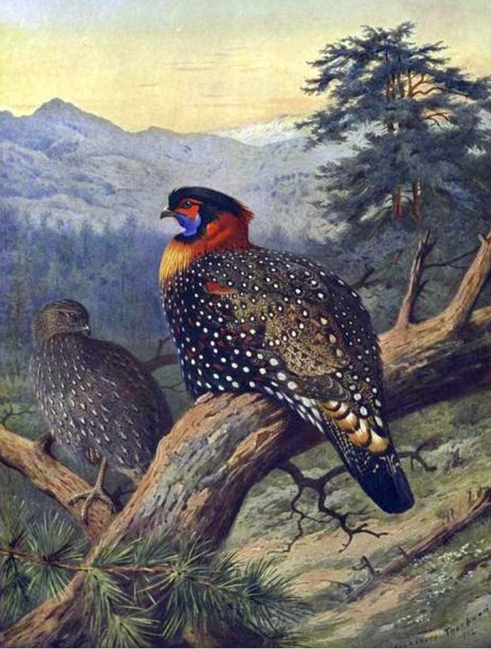 Western Tragopan (Tragopan melanocephalus)